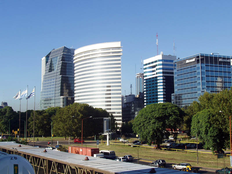 Office buildings in San Nicolás (not Retiro like in the file name), Buenos Aires. 2004. From left: The Bouchard Plaza, República, Fortbabat, and Bouchard 710 (ex Microsoft; after 2011, Samsung) buildings. Avenida Eduardo Madero, Buenos Aires